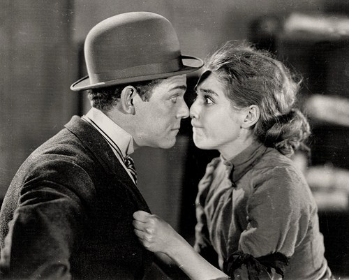 Albert Austin and Mary Pickford in Suds (1920) - cropped screenshot